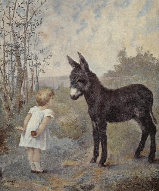 Quelle main qu'tu choisis ? ["Which hand d'you choose?"] by Belgian painter Lia Raiwez (1860-1940). Painting exhibited at the 1893 Paris Salon. Print published by Le Figaro illustré in October 1893.